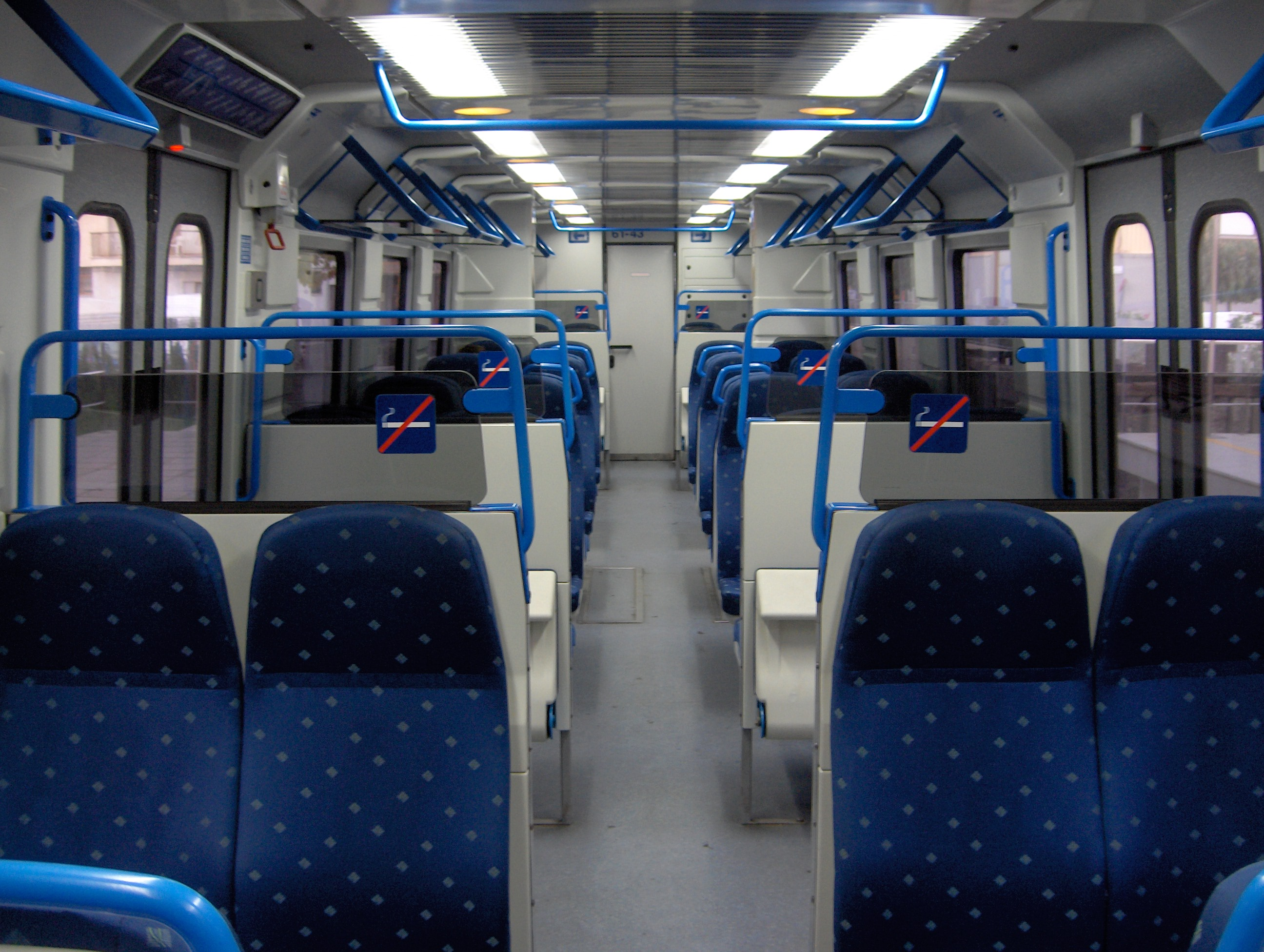 Interior of a Class61 of the SFM on Mallorca